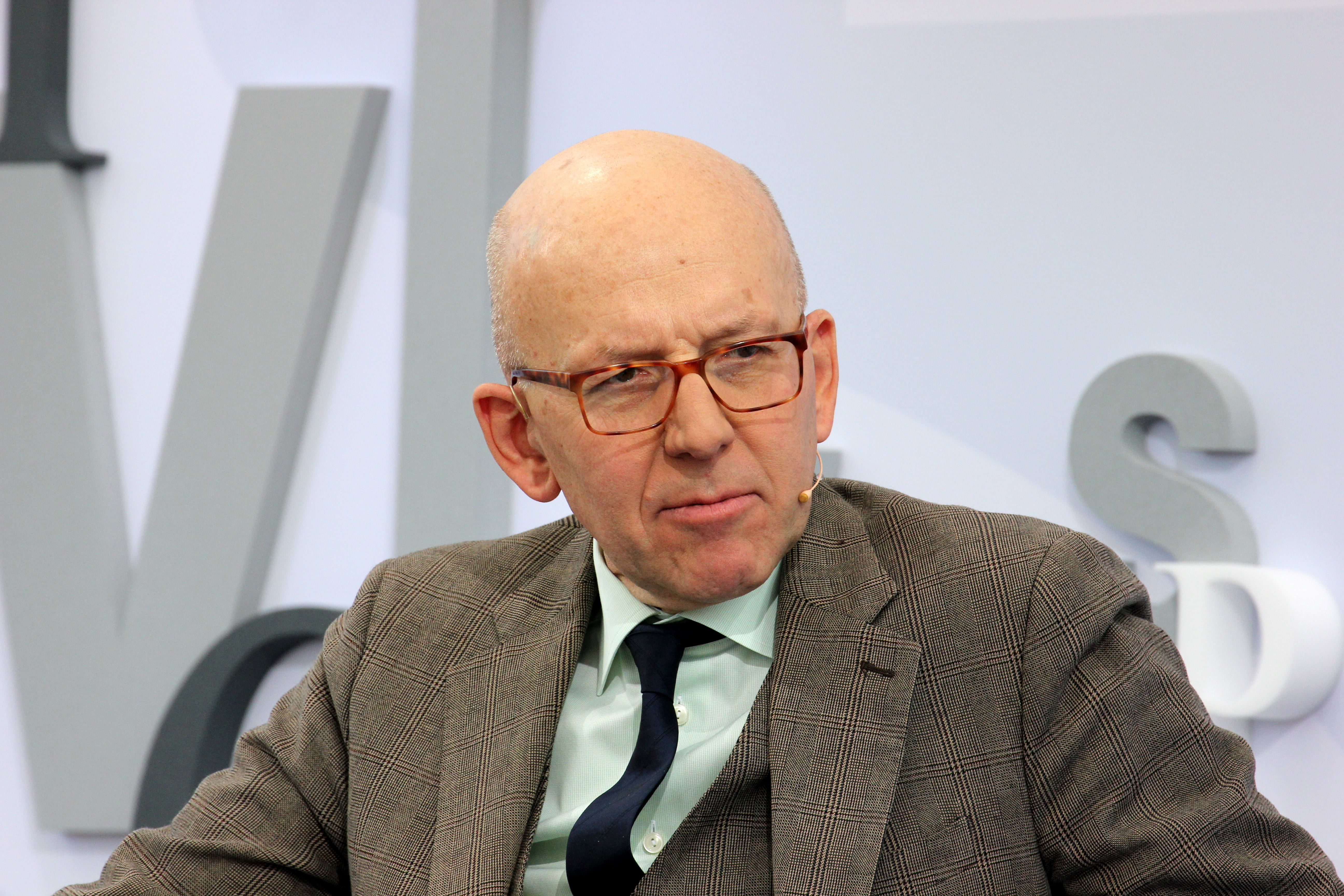 Heinz Bude Leipzig Book Fair 2018